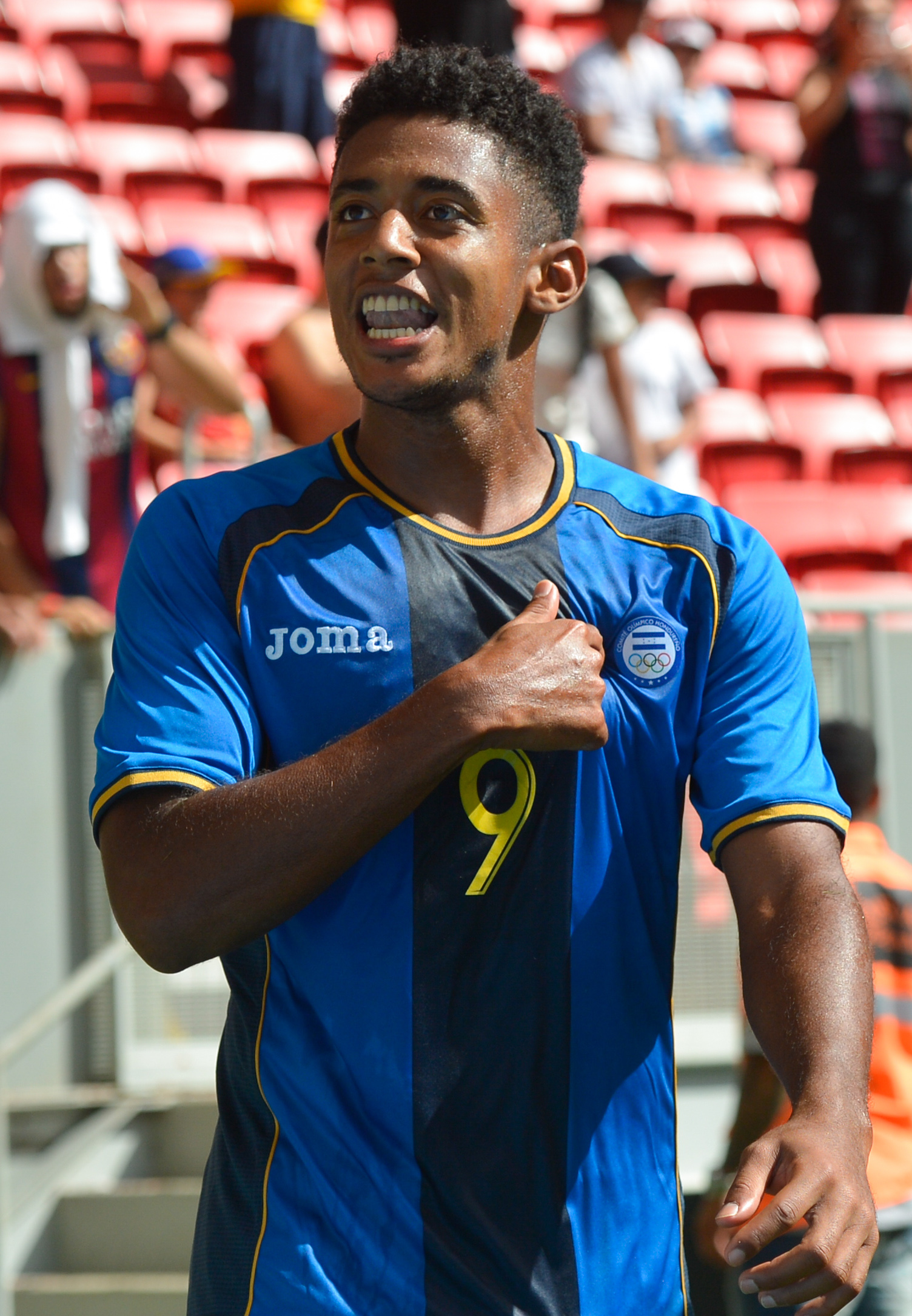 Brasília - Equipes masculinas do futebol olímpico da Argentina e Honduras jogam no Estádio Mané Garrincha (Gustavo Gomes/Agência Brasil)